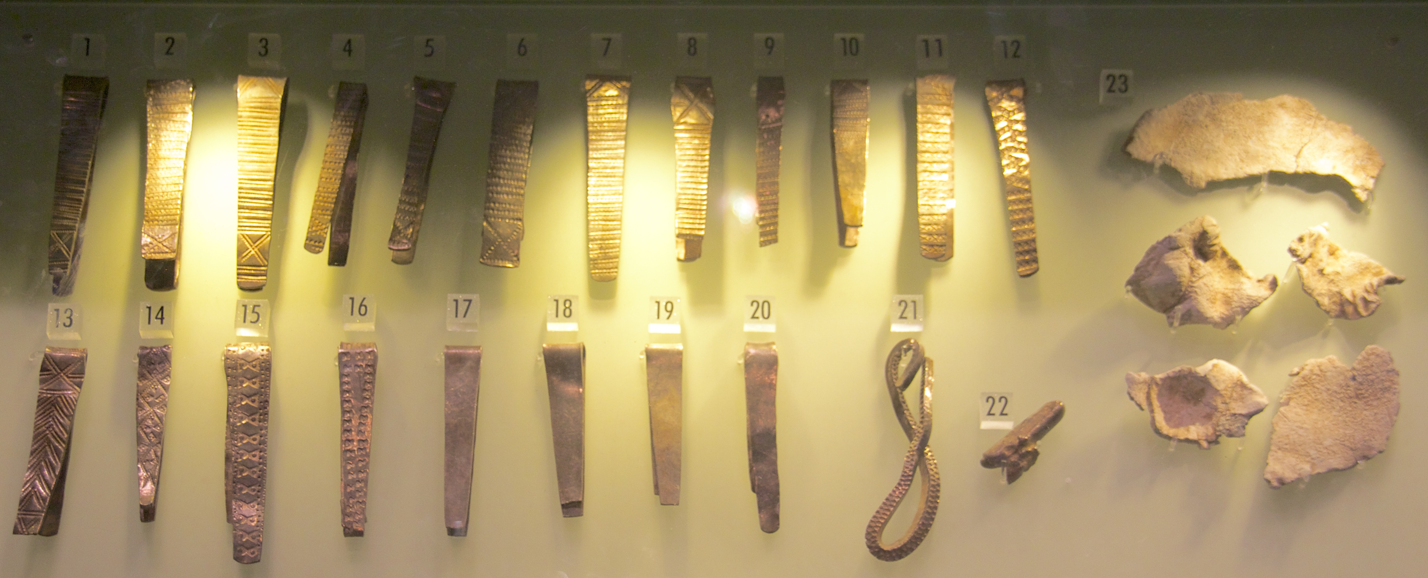 Huxley Hoard. Left: Silver bracelets. 22: One silver ingot. 23: Fragments of lead. Lead wrapped the silver or was part of the box in which the hoard was buried. On display in the Museum of Liverpool.